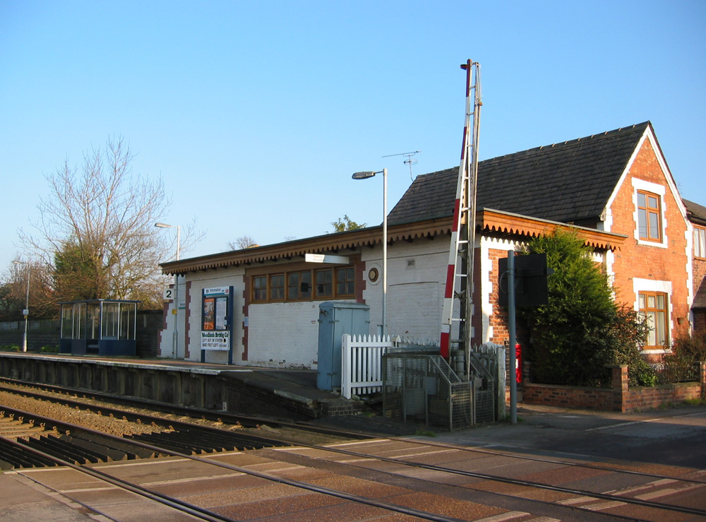 Wrenbury Station Request-stop, two-platform station on the Welsh Marches Line, adjacent to a level crossing on Station Road